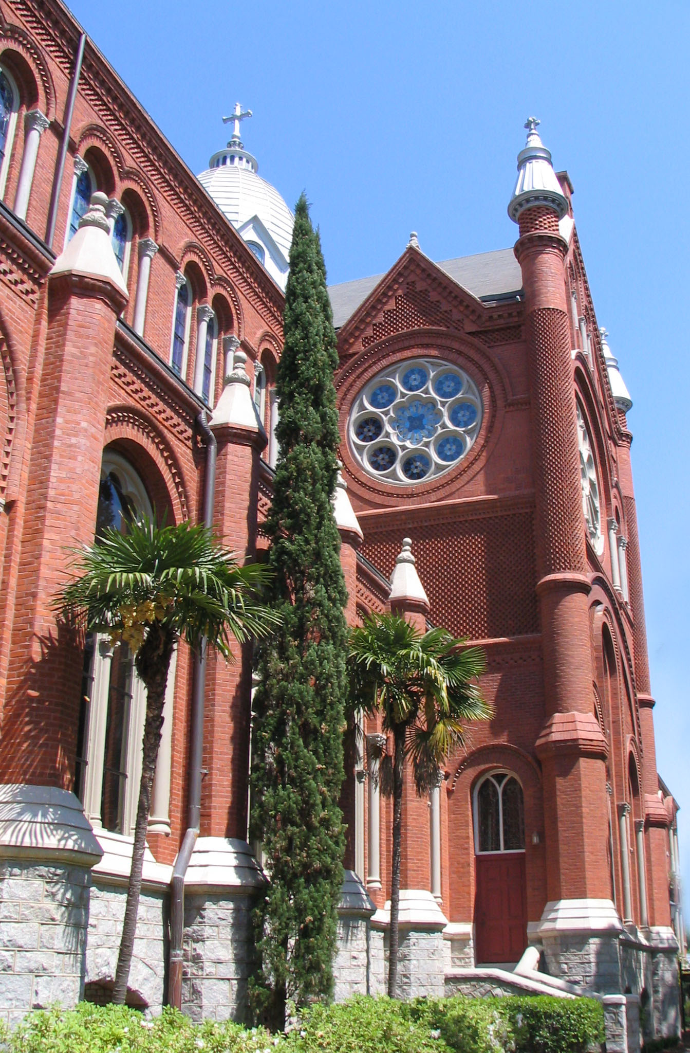 Exterior of the Sacred Heart church in Augusta, Georgia (USA).